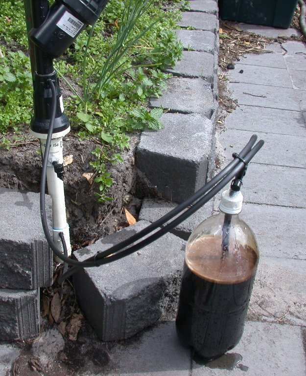 An example of "fertigation" where a vessel with fertilizer mixed with water is connected to a drip irrigation system to spread a control amount of both nutrients and water to the plant